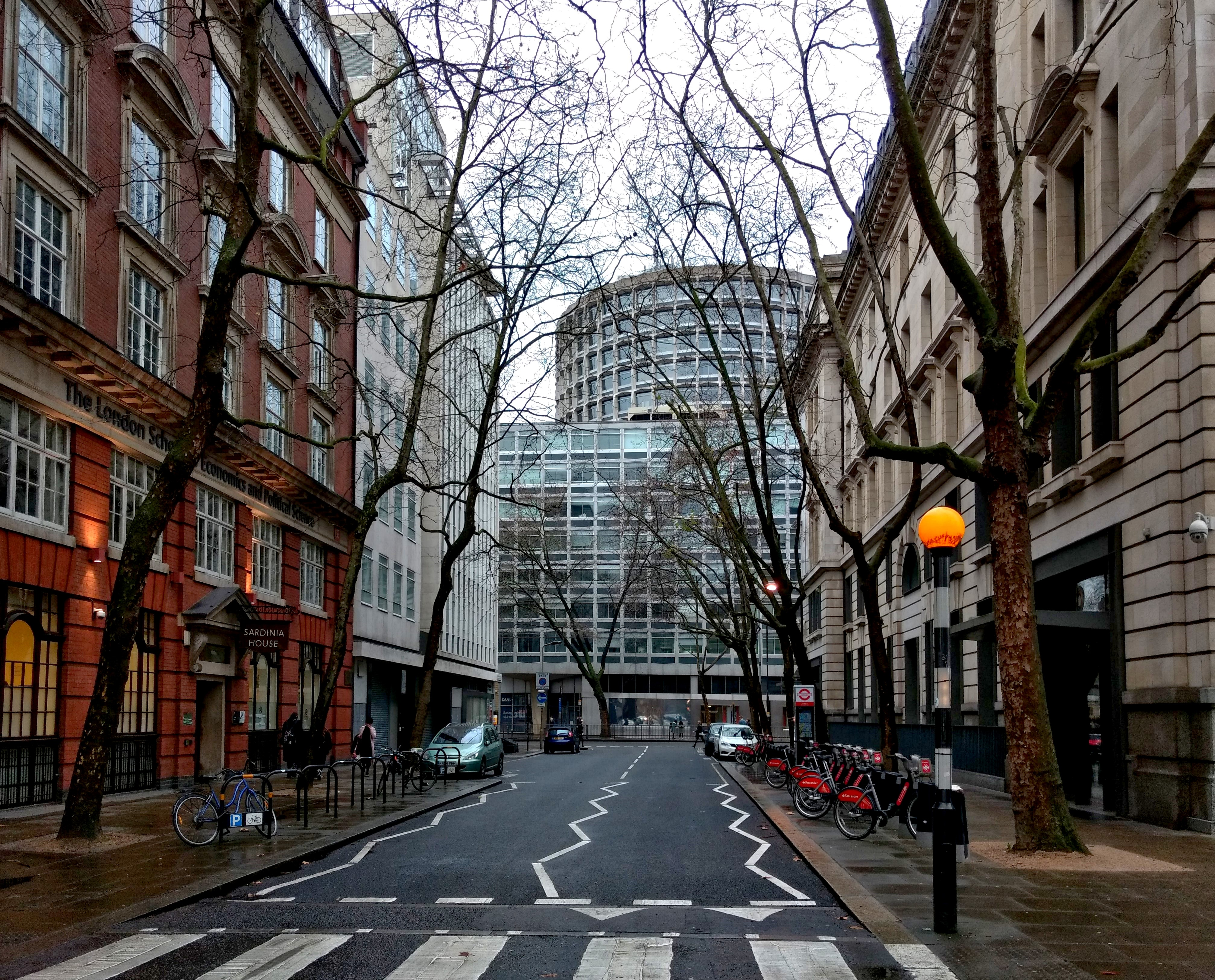 Sardinia Street 7 Jan 2017